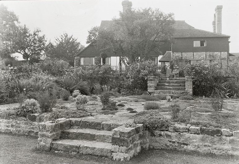 Title [Sir Walter Lawrence house, East Grinstead, Sussex, England. Terrace] Contributor Names Johnston, Frances Benjamin, 1864-1952, photographer Created / Published [1925 summer] Subject Headings - Houses--England--1920-1930 - Gardens--England--1920-1930 - Terraces--England--1920-1930 Format Headings Lantern slides--1920-1930. Notes - Title, date, and subject information provided by Sam Watters, 2011. - Forms part of: Garden and historic house lecture series in the Frances Benjamin Johnston Collection (Library of Congress). - Condition caution: unmounted slide. - Penciled on sleeve (not by FBJ?): no. # 488. Medium 1 photograph : glass lantern slide, b&w ; 3.25 x 4 in. Call Number/Physical Location LC-J717-X110- 61 [P&P] Repository Library of Congress Prints and Photographs Division Washington, D.C. 20540 USA Digital Id ppmsca 16968 //hdl.loc.gov/loc.pnp/ppmsca.16968 Library of Congress Control Number 2008677768 Reproduction Number LC-DIG-ppmsca-16968 (digital file from original item) Rights Advisory No known restrictions on publication. Online Format image Description 1 photograph : glass lantern slide, b&w ; 3.25 x 4 in. LCCN Permalink